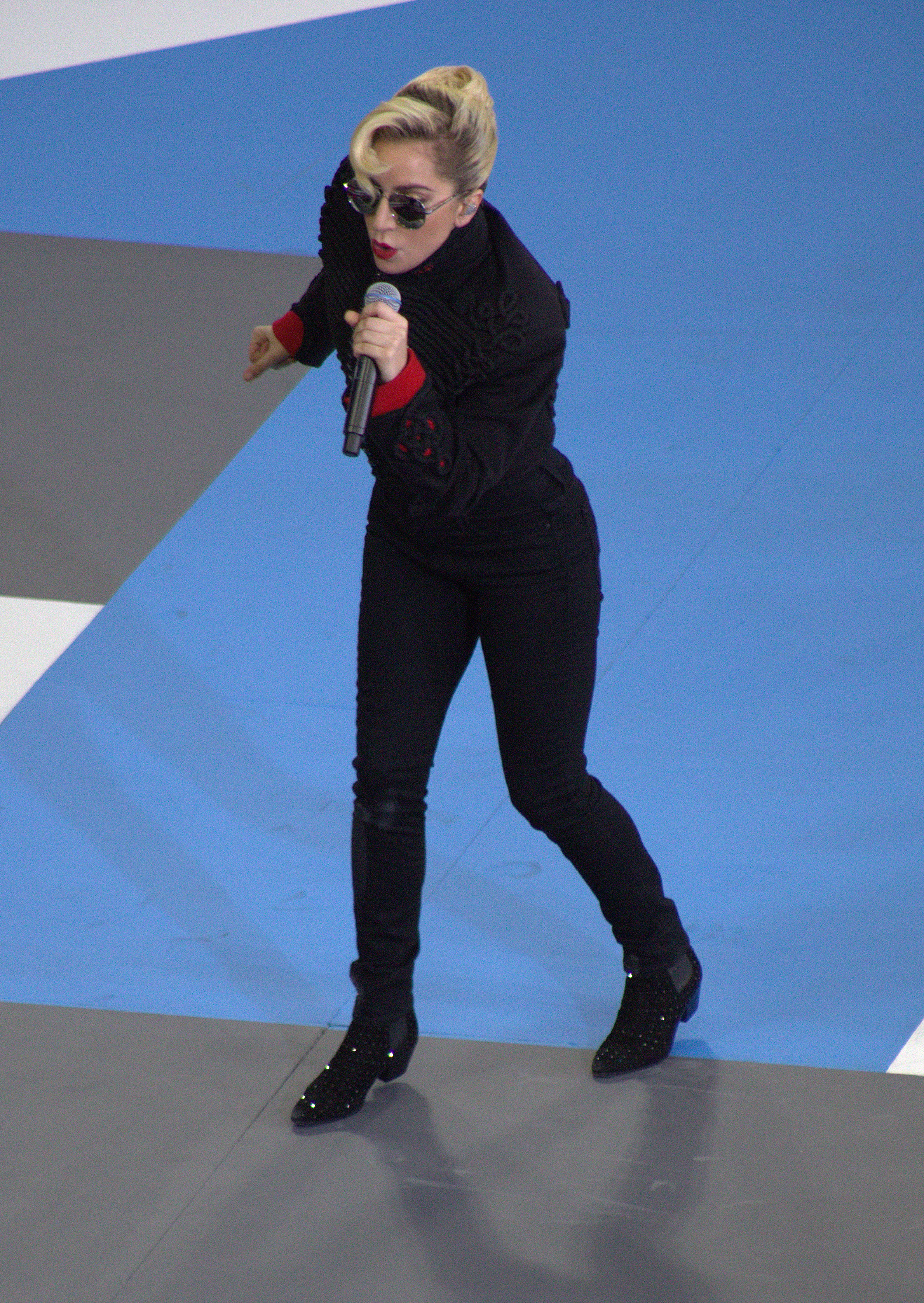 Lady Gaga performing her song "Come to Mama" at a special midnight rally in support of the Democratic presidential candidate, Hillary Clinton, in Raleigh, North Carolina.